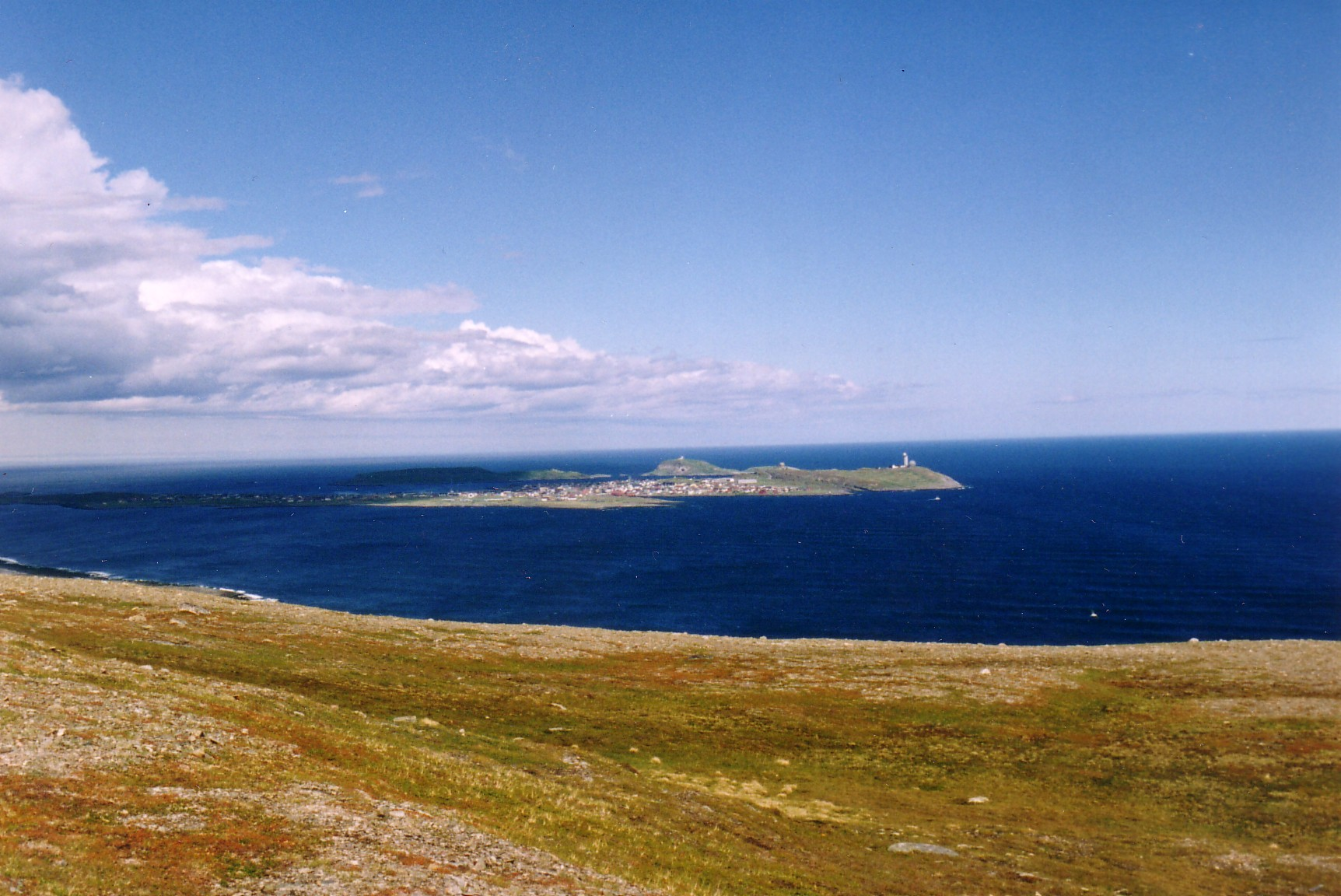 The city of Vardø in Finnmark, North Norway, seen from the mountain of Domen